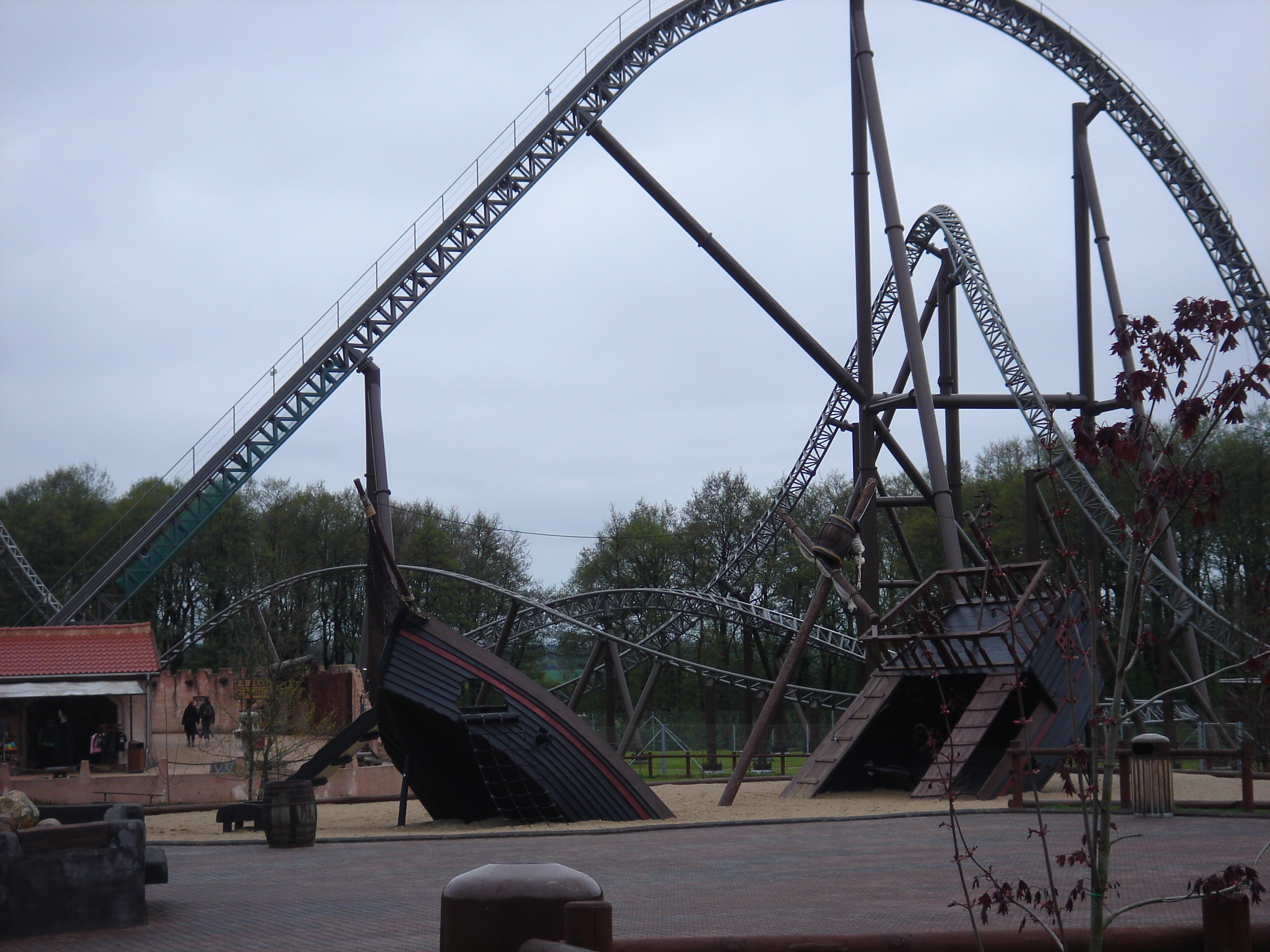 The lifthill of Piraten at Djurs Sommerland